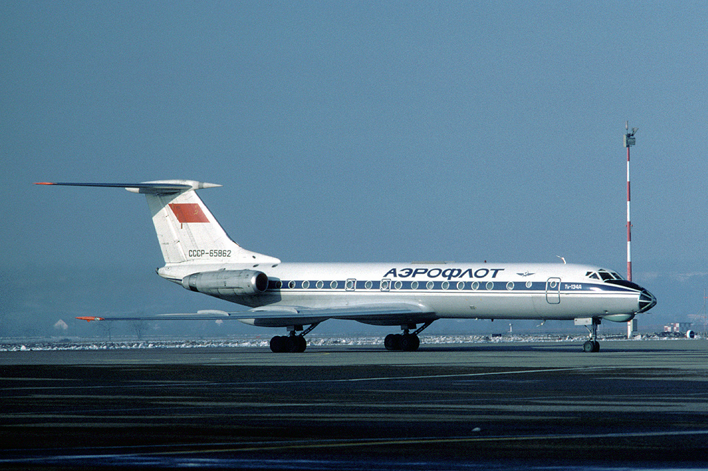 An Aerofot Tupolev Tu-134A at Euroairport